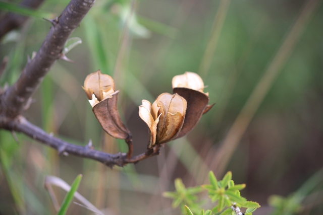 The dry seed pods now burst and disposed of their seeds.